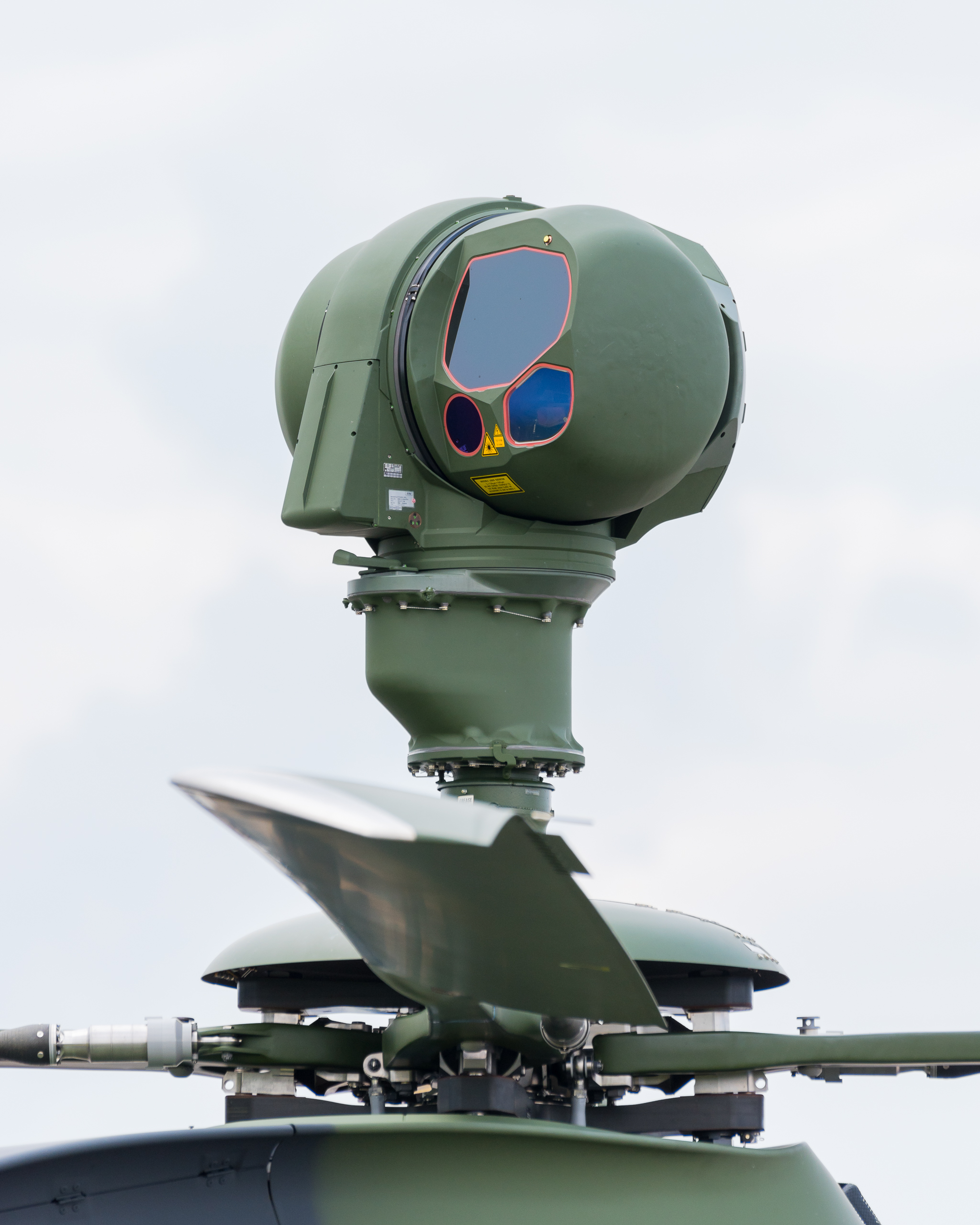 German Army Airbus Helicopters/Eurocopter EC 665 Tiger (reg. 74+53, cn 1053) at ILA Berlin Air Show 2016. The picture shows the mast containing the Osiris sight/sensor system.